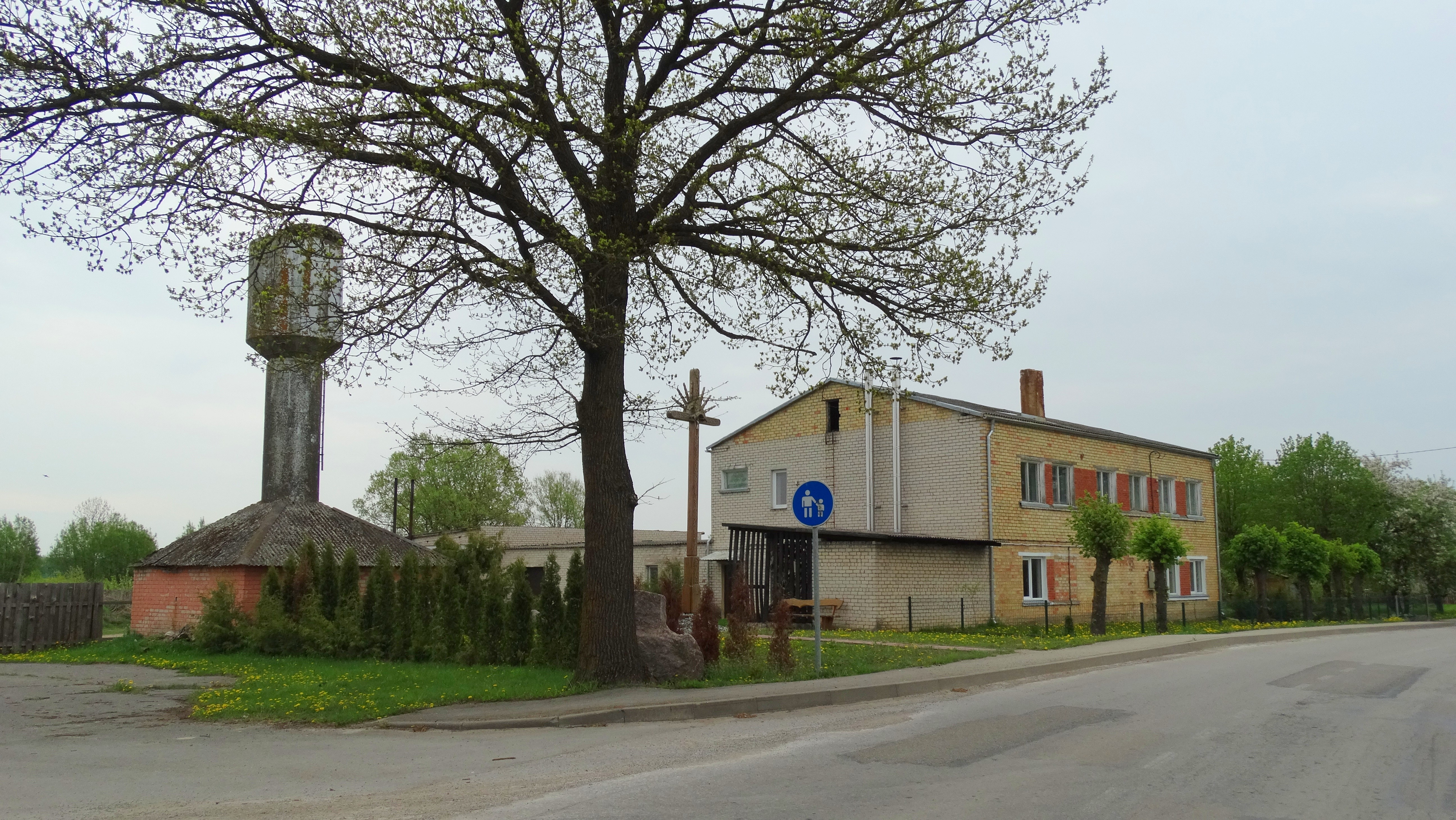 Balsiai, Pakruojis district, Lithuania